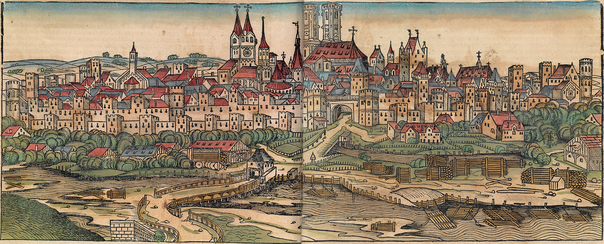 Munich.from the Nuremberg Chronicle (Latin edition in Sao Paulo)